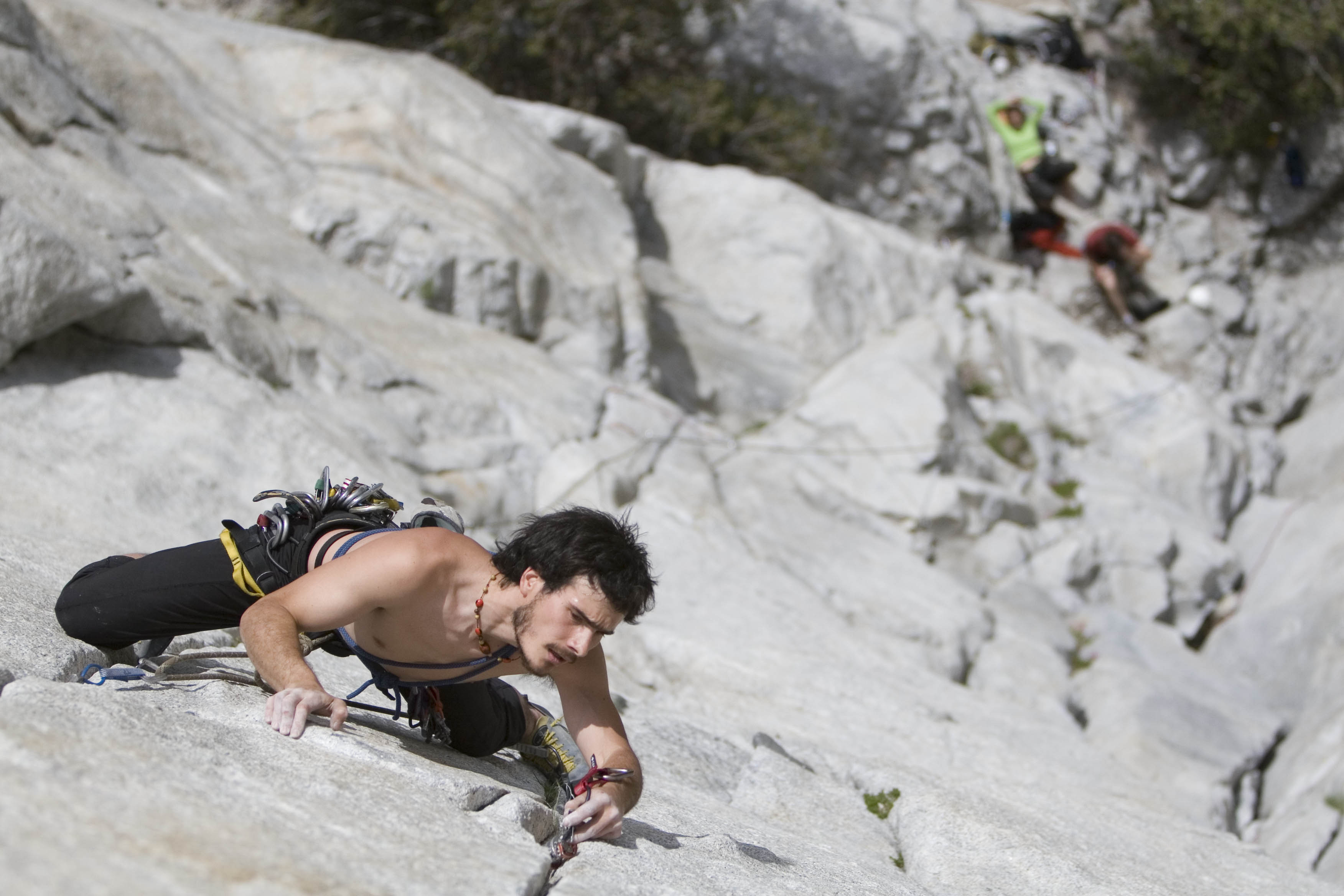 Climbing in Yosemite Valley